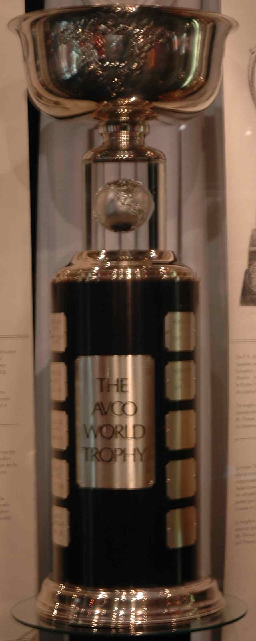 The AVCO World Trophy of former League WHA